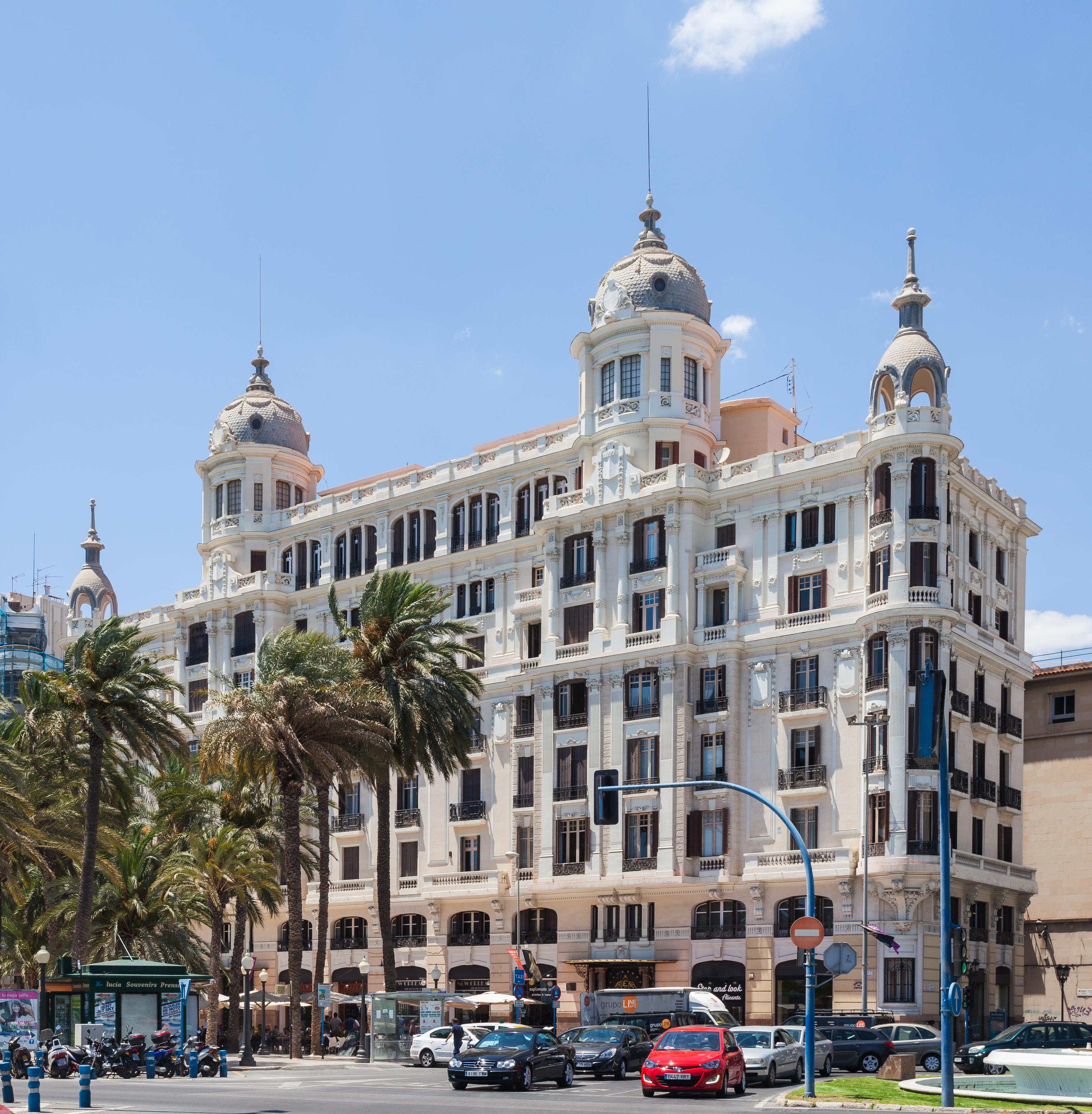 Carbonell House, Alicante, Spain